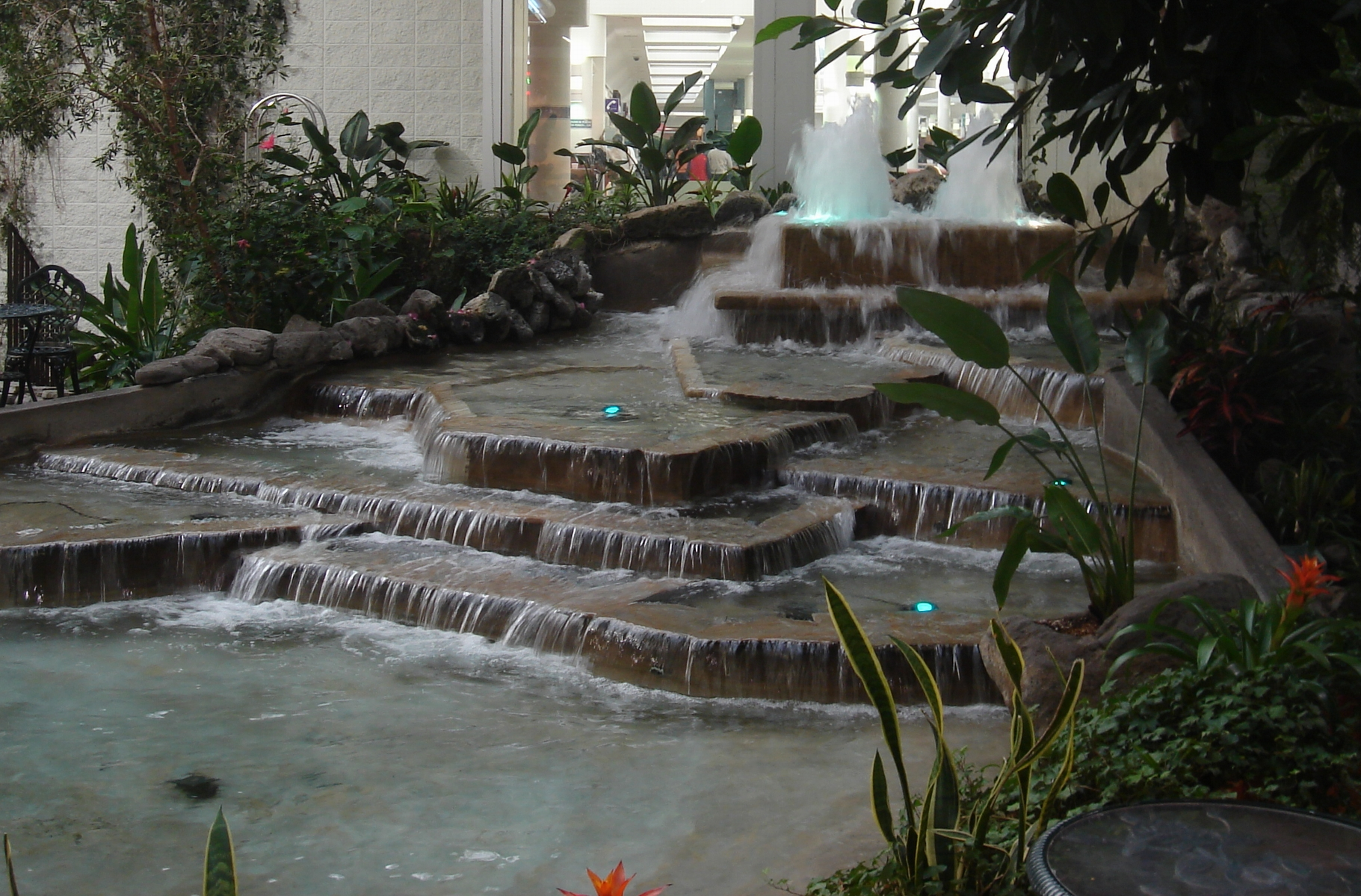 Devonian Gardens botanical garden in Calgary, Alberta, Canada, waterfall